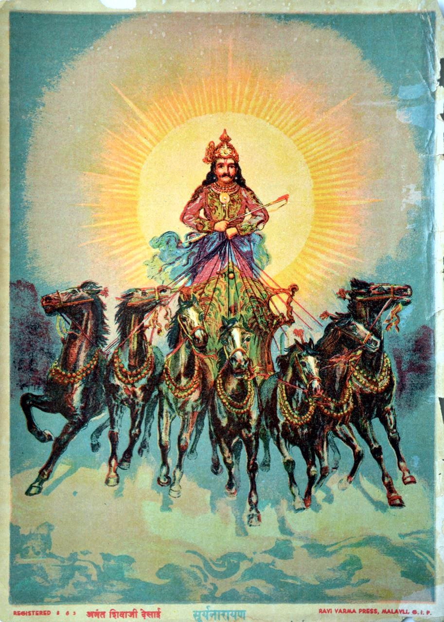 Surya Narayan Early Lithograph by Ravi Varma Press 10 x 7 inches Code No: 12178 Rs 3000.00 0 View to Scale Overview Specifications Contact Us Early Lithograph by Ravi Varma Press Surya Narayan 10 x 7 inches | 25.4 x 17.78 cms